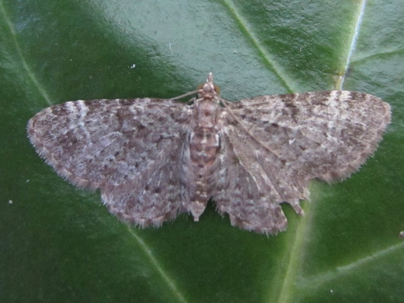 Pasiphila chloerata Location: The Netherlands - Clinge - Bos zuid van Clinge